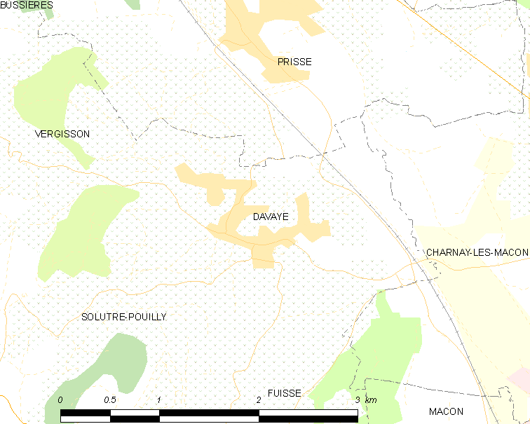 Map of French municipality